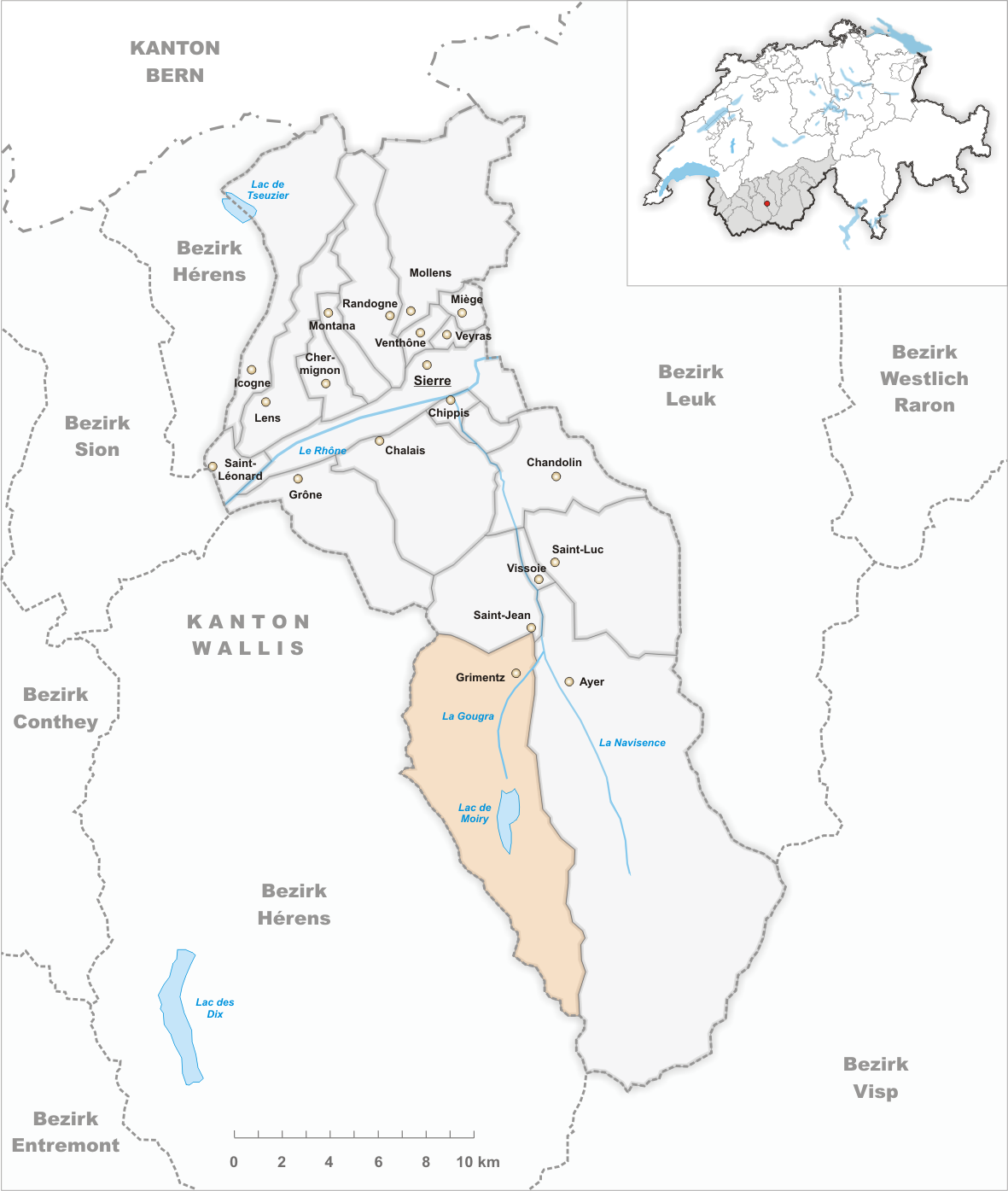 Municipality Grimentz